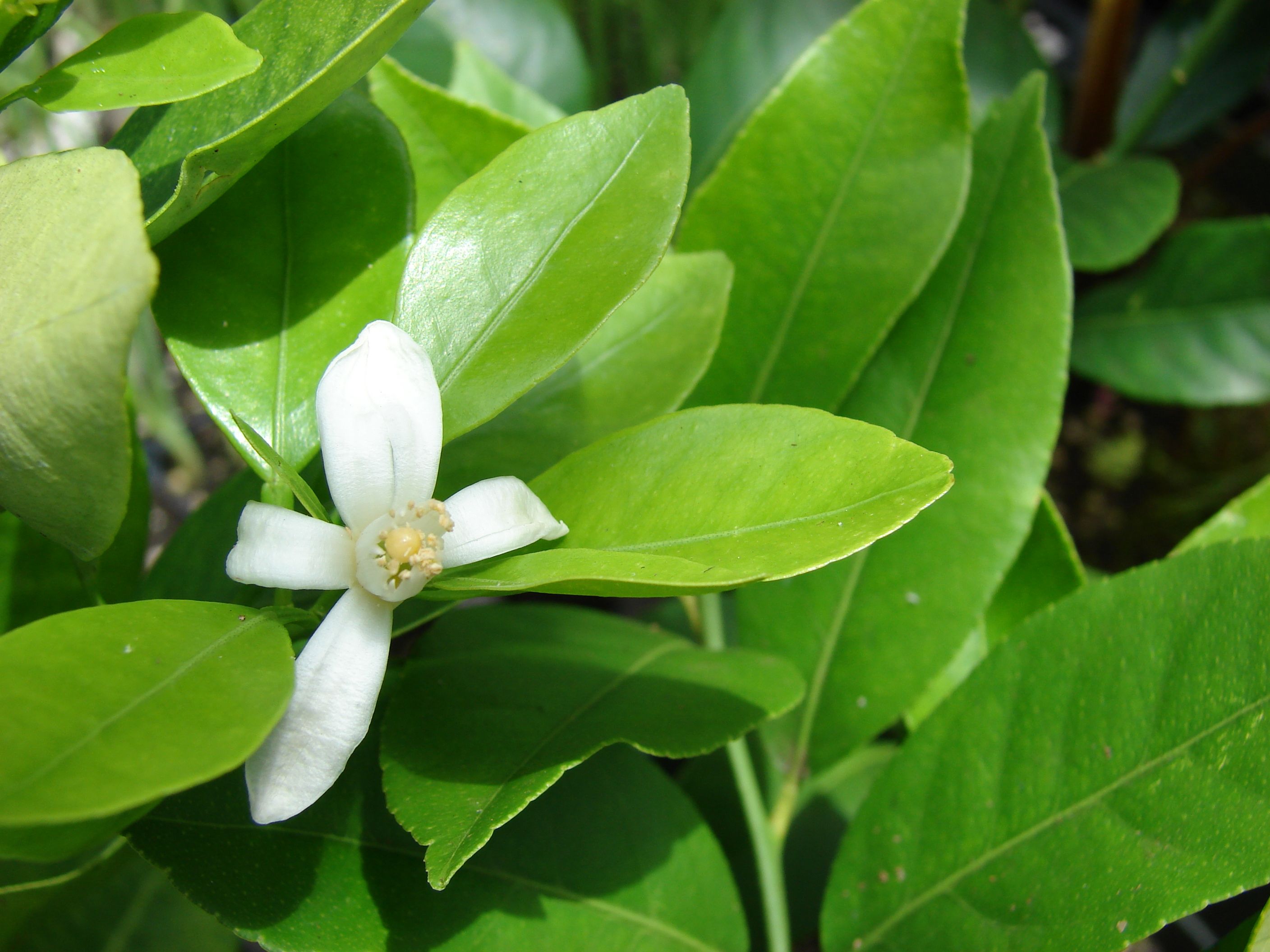 Citrofortunella microcarpa (flower and leaves). Location: Maui, Kula Ace Hardware and Nursery